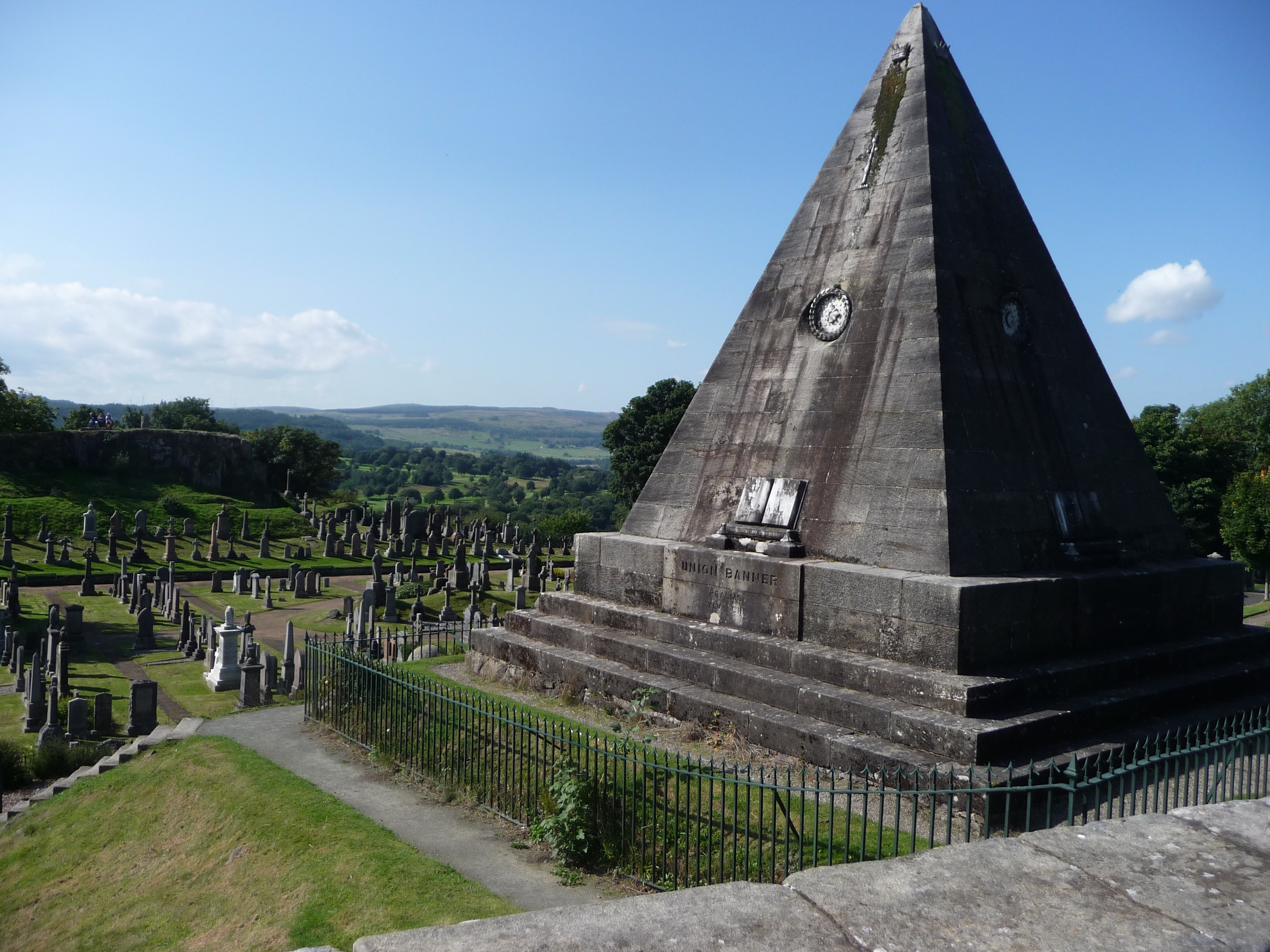 Stirling, St John Street, Church Of The Holy Rude, Burial-ground Wikidata has entry Q17572154 with data related to this item.